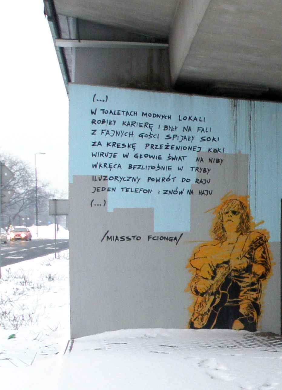 Tomasz Lipiński mural.